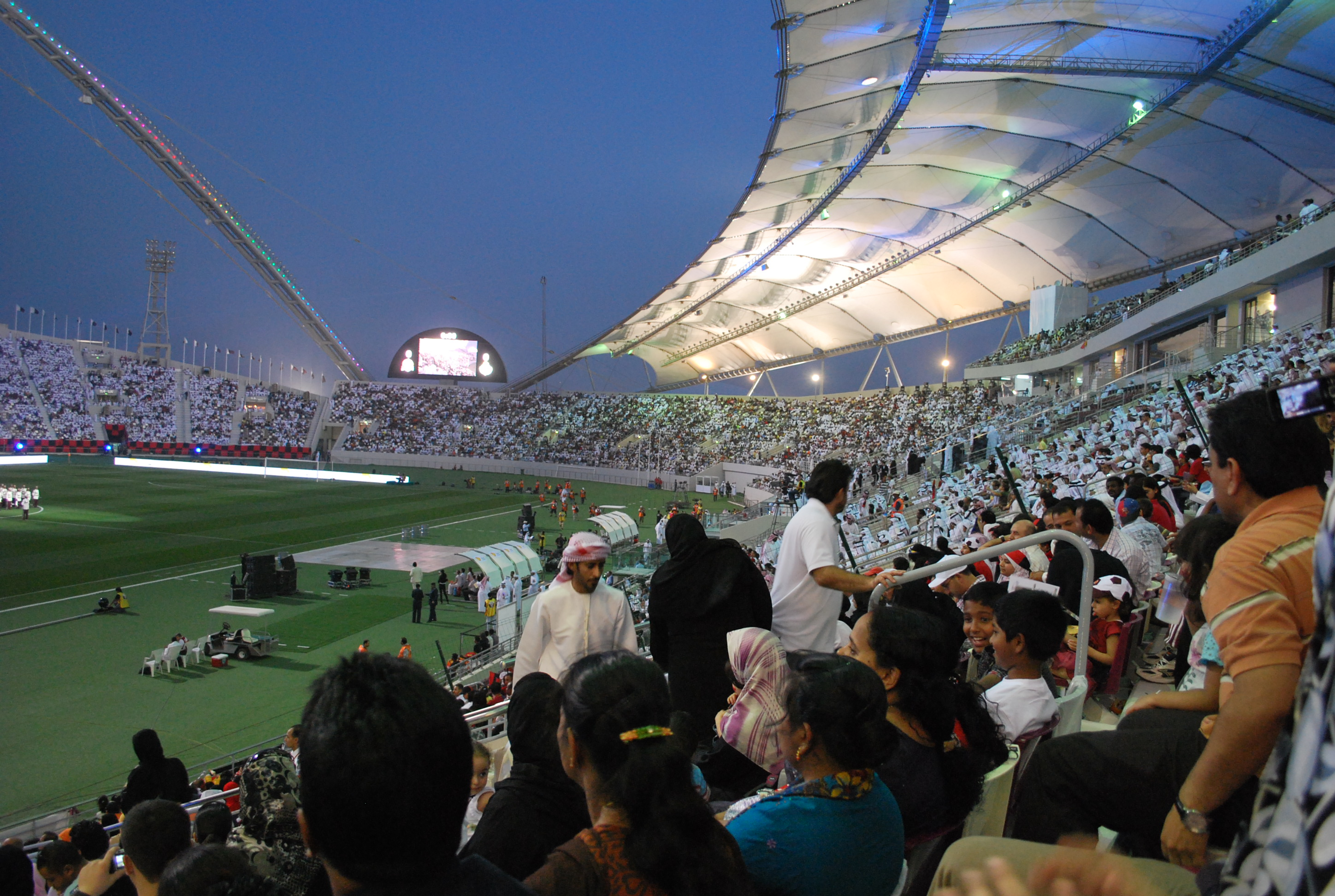 Opening Ceremony 2009 Emir of Qatar Cup Final.